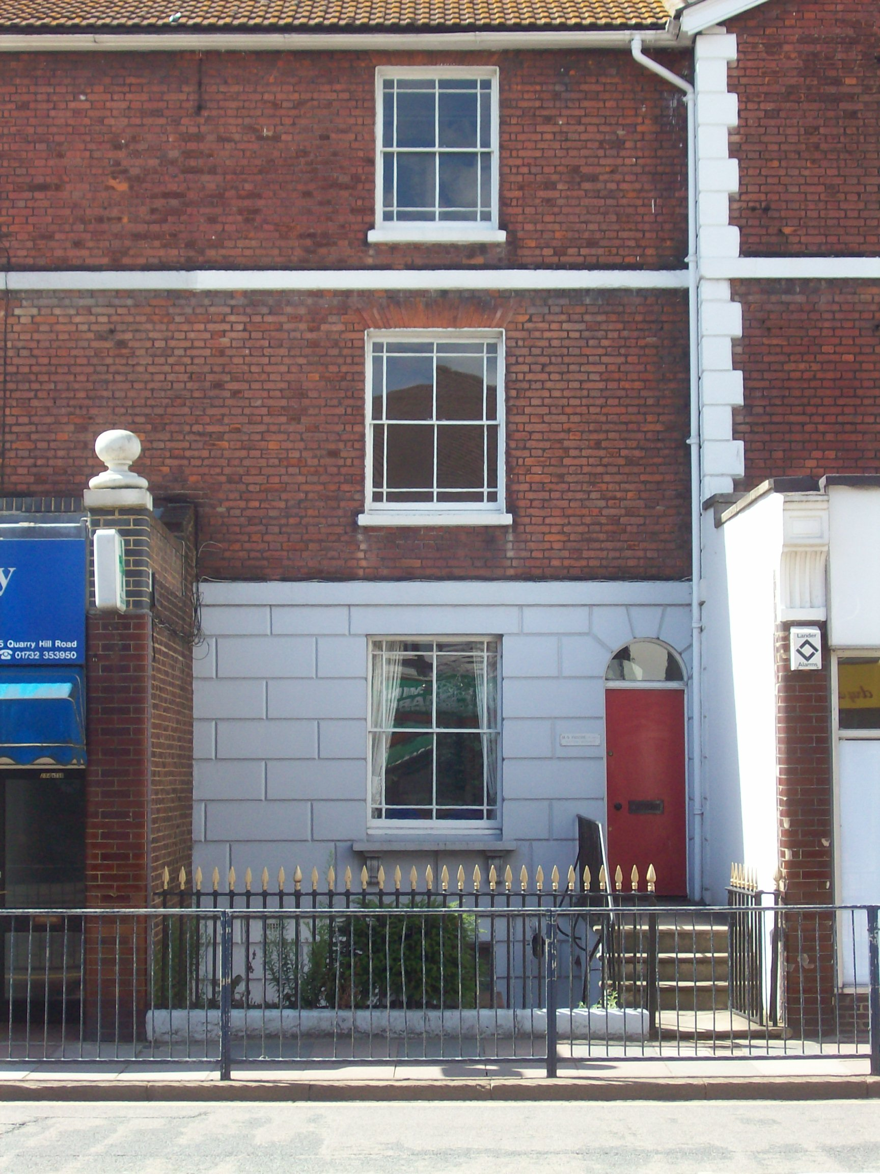 23 Salford Terrace, Tonbridge - H F Stephens' headquarters